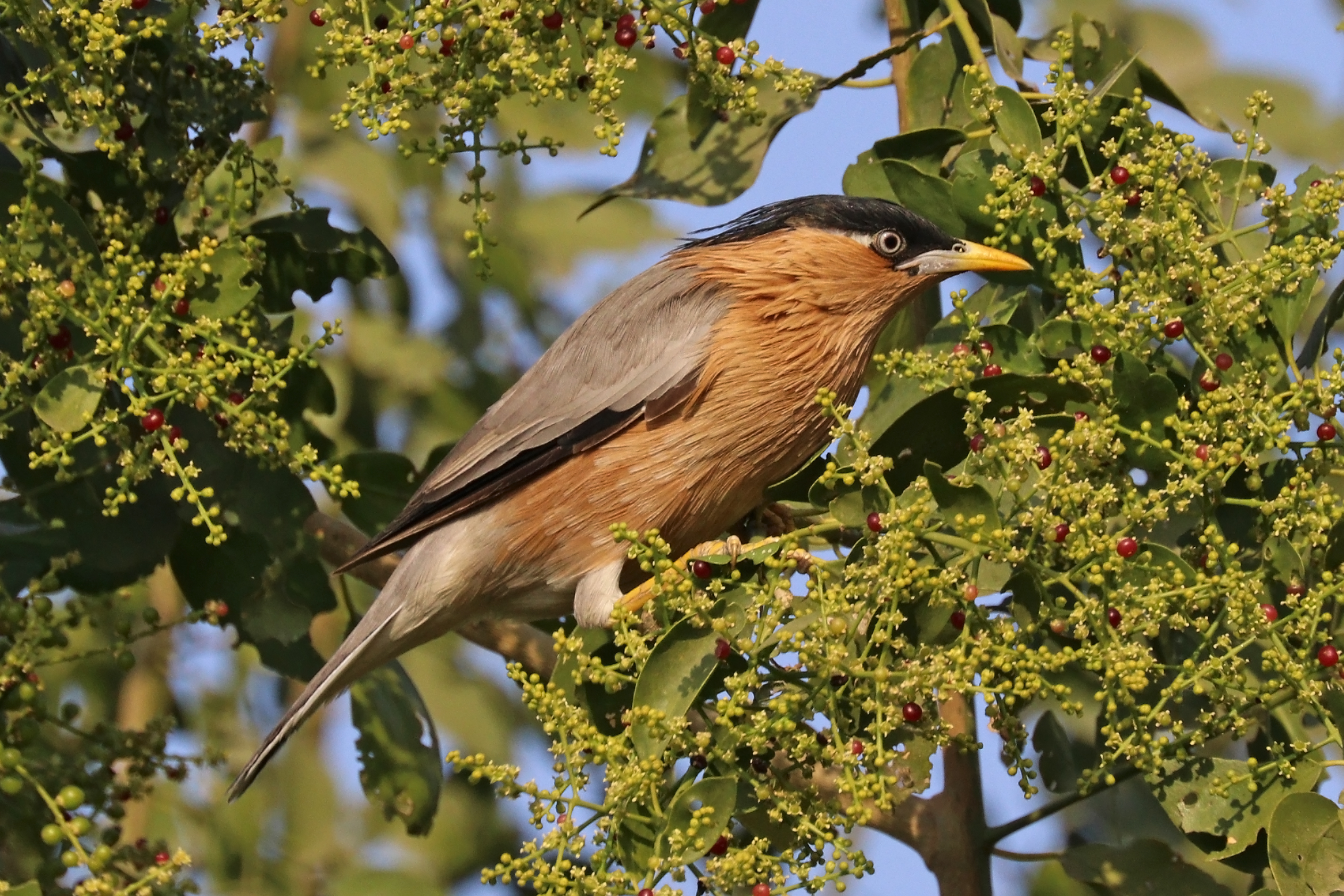 Brahminy starling (Sturnia pagodarum) sub-adult, Keoladeo NP, Bharatpur, Rajasthan, India